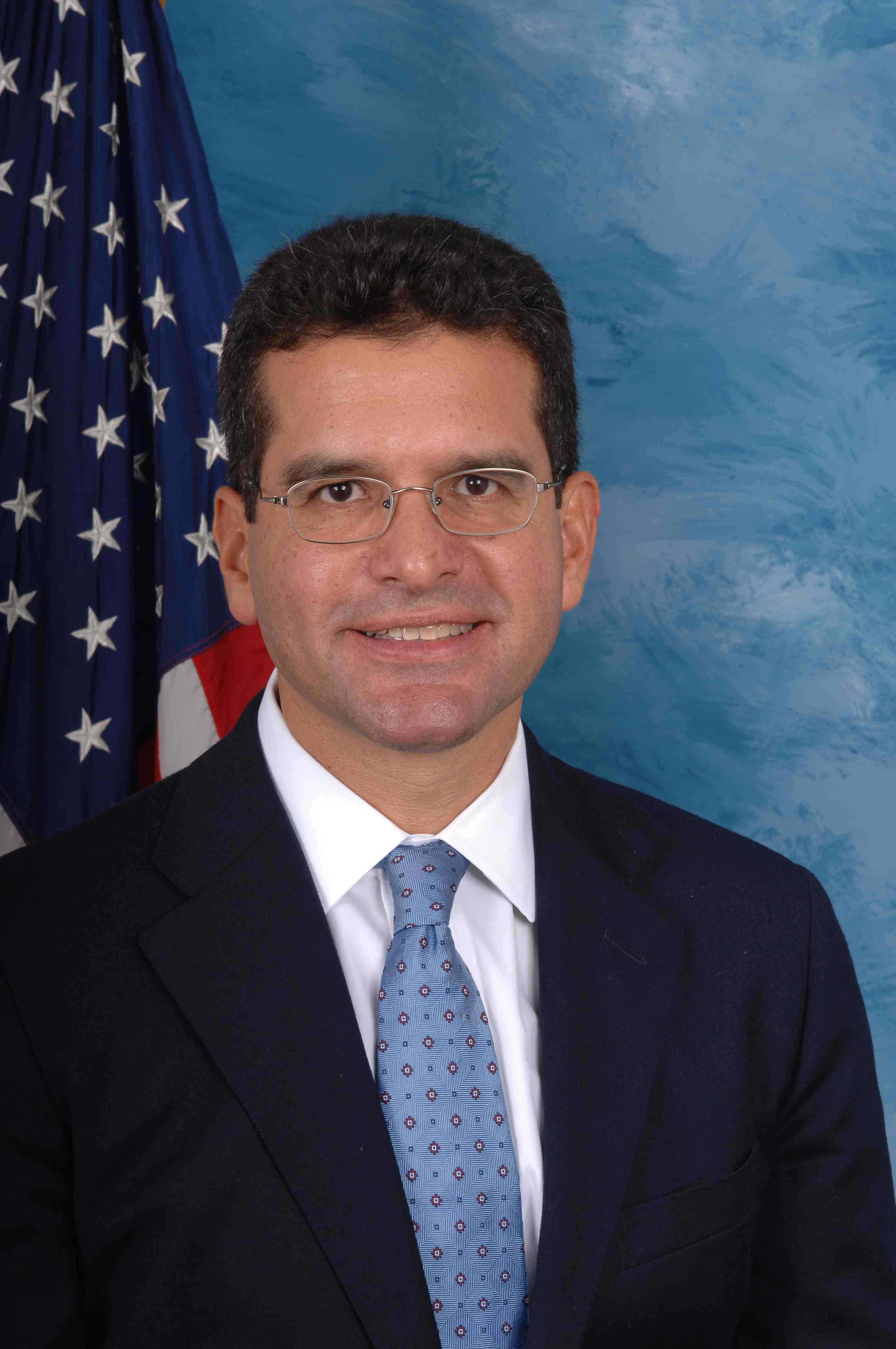 Pedro Pierluisi, member of the United States House of Representatives from Puerto Rico since 2009.